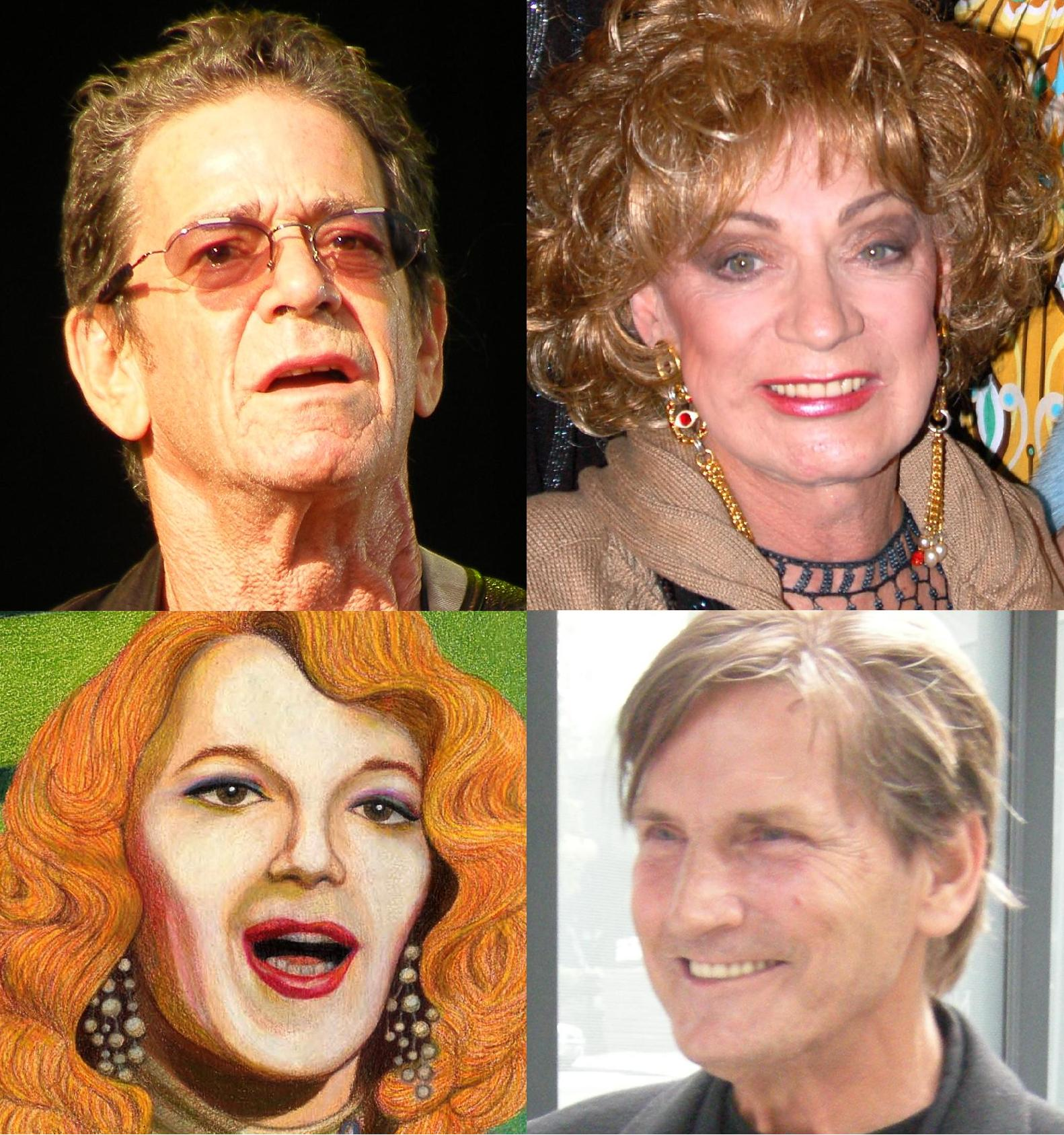 Lou Reed and his friends mentioned in "Walk on the Wild Side": Holly Woodlawn, Jackie Curtis, Joe Dallesandro